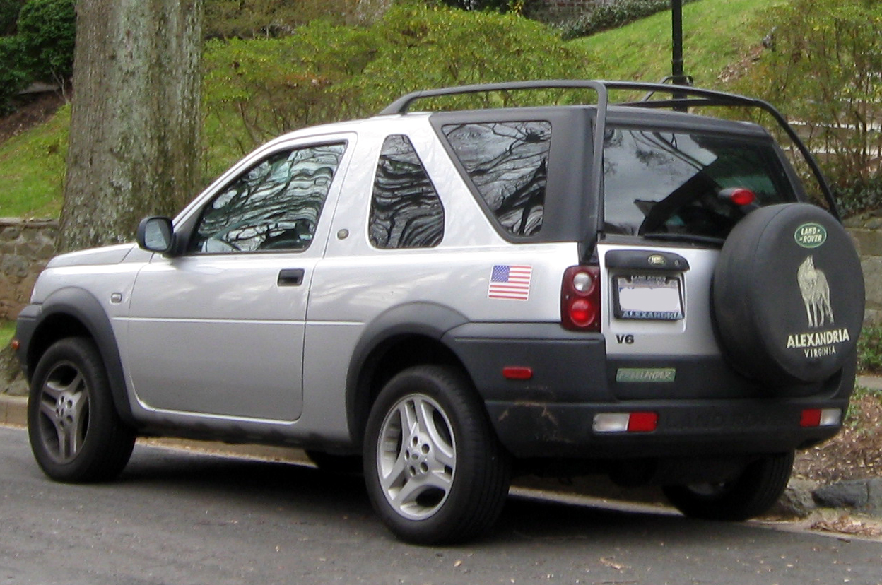 2002-2003 Land Rover Freelander photographed in Washington, D.C., USA.